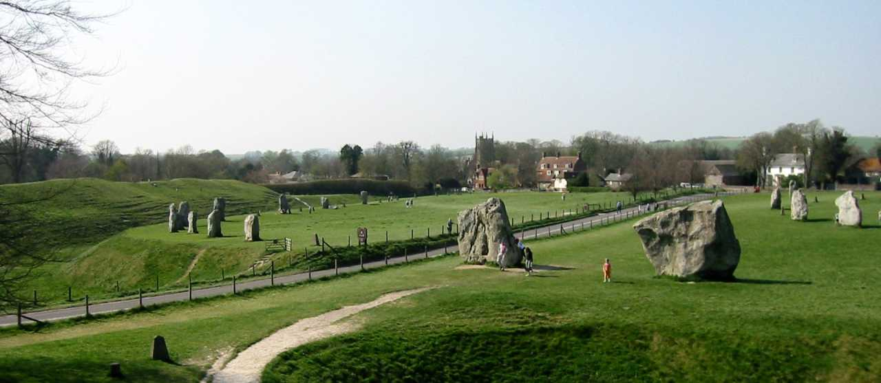 Stone Circles in Avebury, England